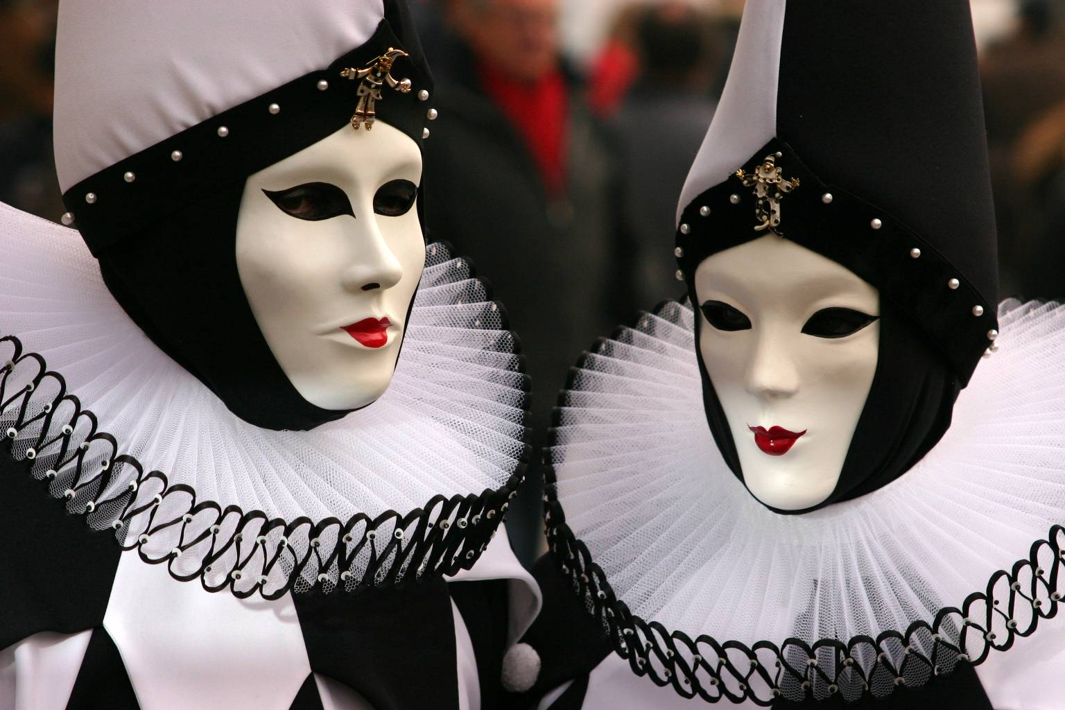 I took these photos at the Carnivale in Venice, Italy in February, 2004. What a blast, despite the freezing weather!